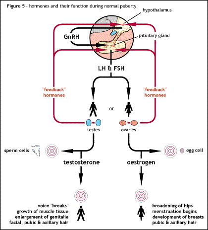 Flow diagram showing the hormonal control of normal human puberty showing the hypothalamus & pituitary glands and their effects on the testes & ovaries with the control of the hormones GnRH, LH and FSH.